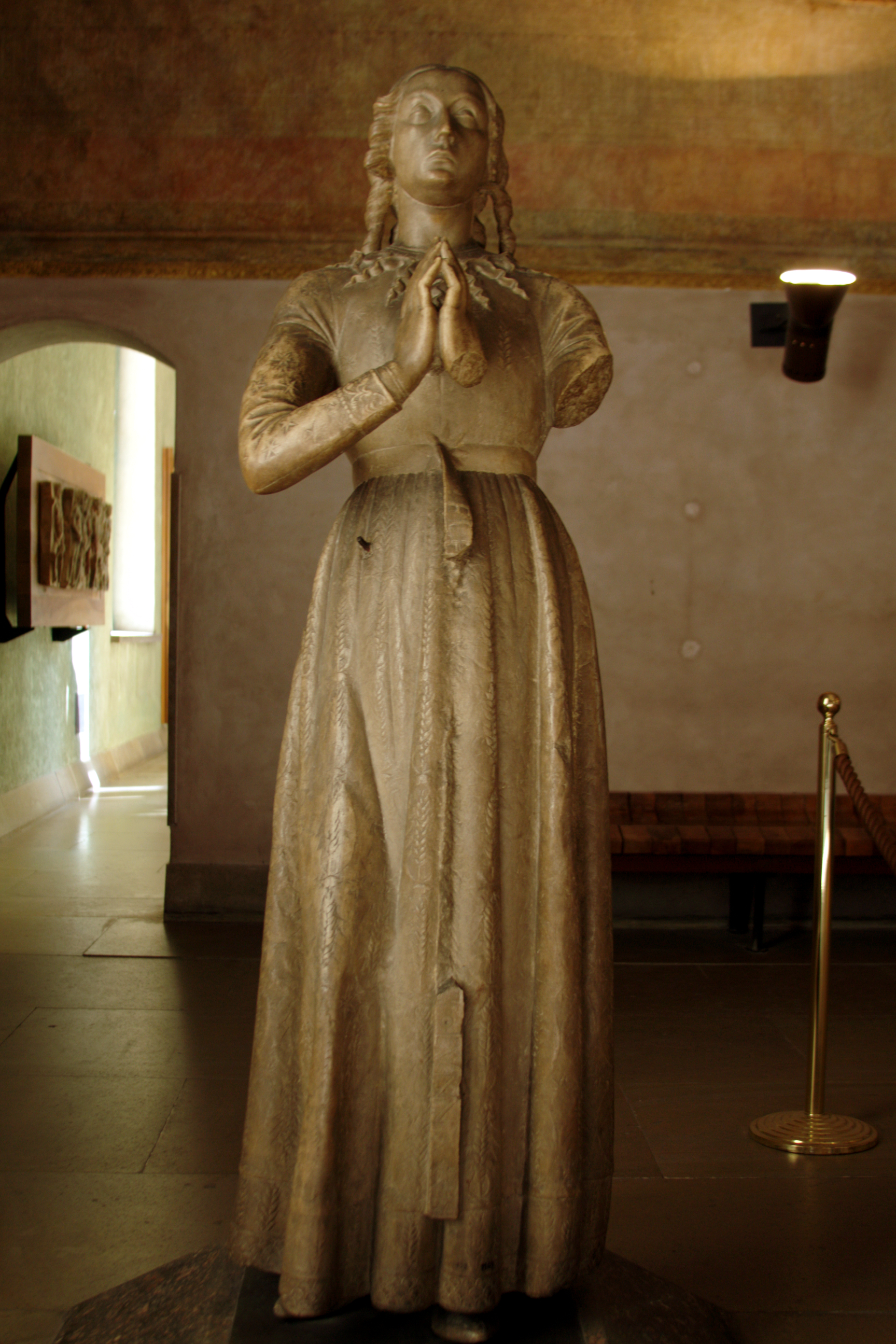 Museo d'arte antica (Milan)